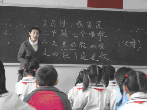 Teaching of Gulou Dialect in Fuzhou Shiyan Elementary School